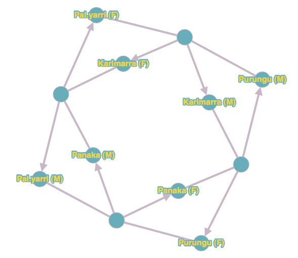 Graph that sums up kinship in the Martuthunira society. Unnamed nodes stand for different marriage types : they are linked to spouses by simple lines and to children by arrows. The graph can be found and modified at : Peter Bearman called this system "Aranda system" in Bearman, P. (1997). Generalized Exchange. American Journal of Sociology, 102(5), 1383–1415.